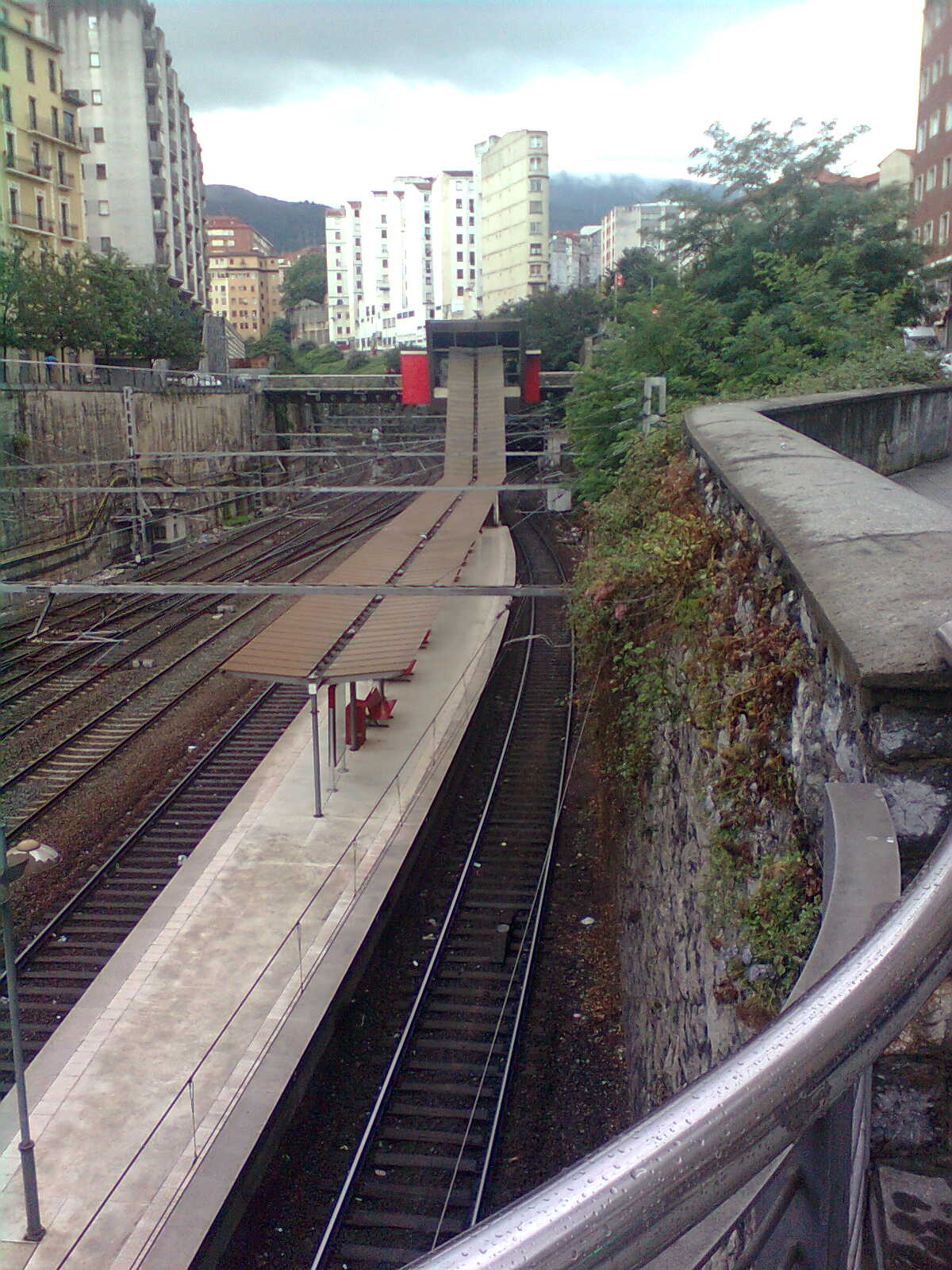 Zabalburu train station. Bilbao (Basque Country)